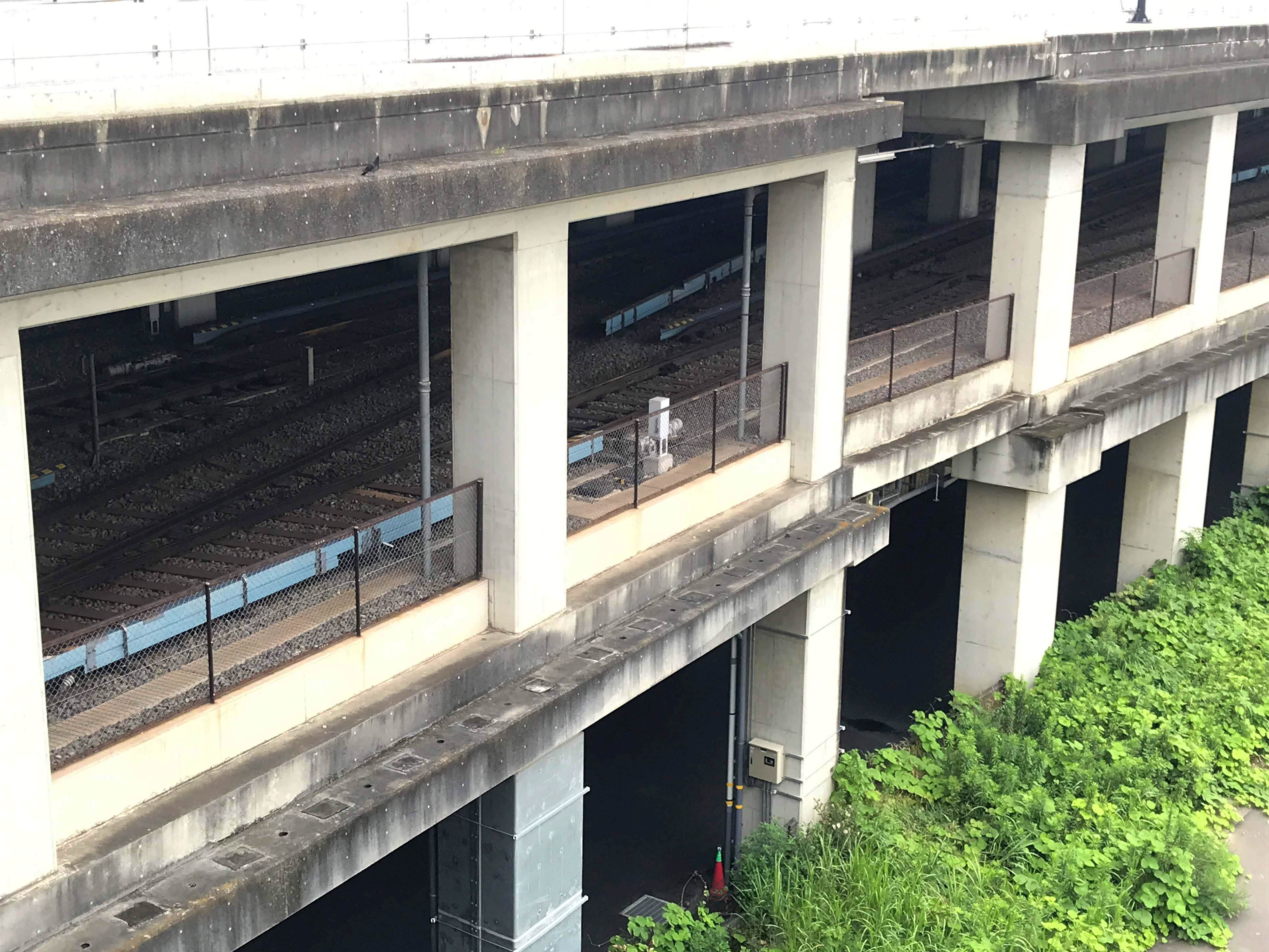 Nippa train base on the Yokohama Municipal Subway Blue Line.